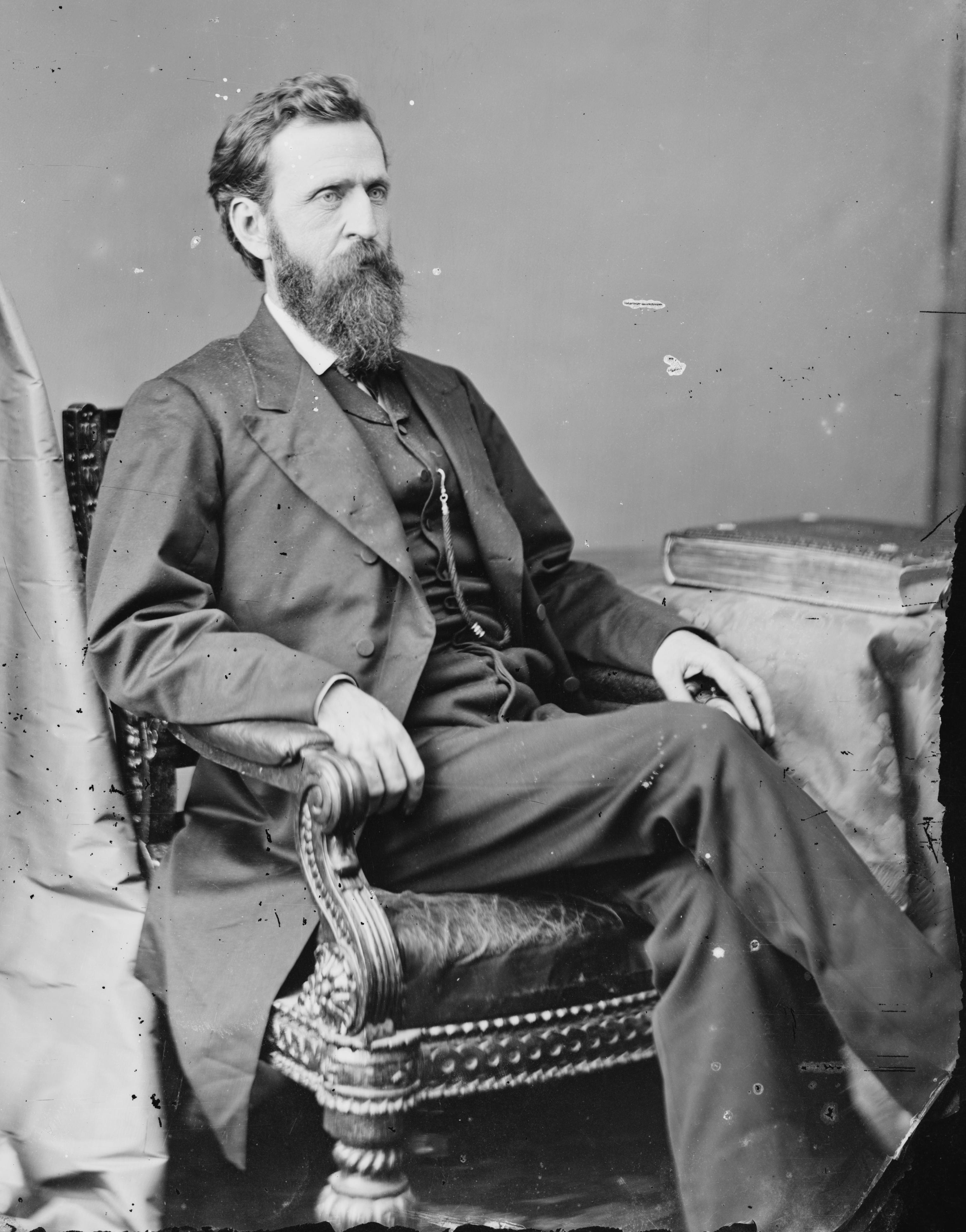 David Alexander Nunn. Library of Congress description: "Hon. David Alexander Nunn of Tenn."